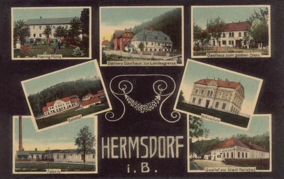 Old postcard of Hermsdorf / Heřmanice, Liberec District, Czech Republic.